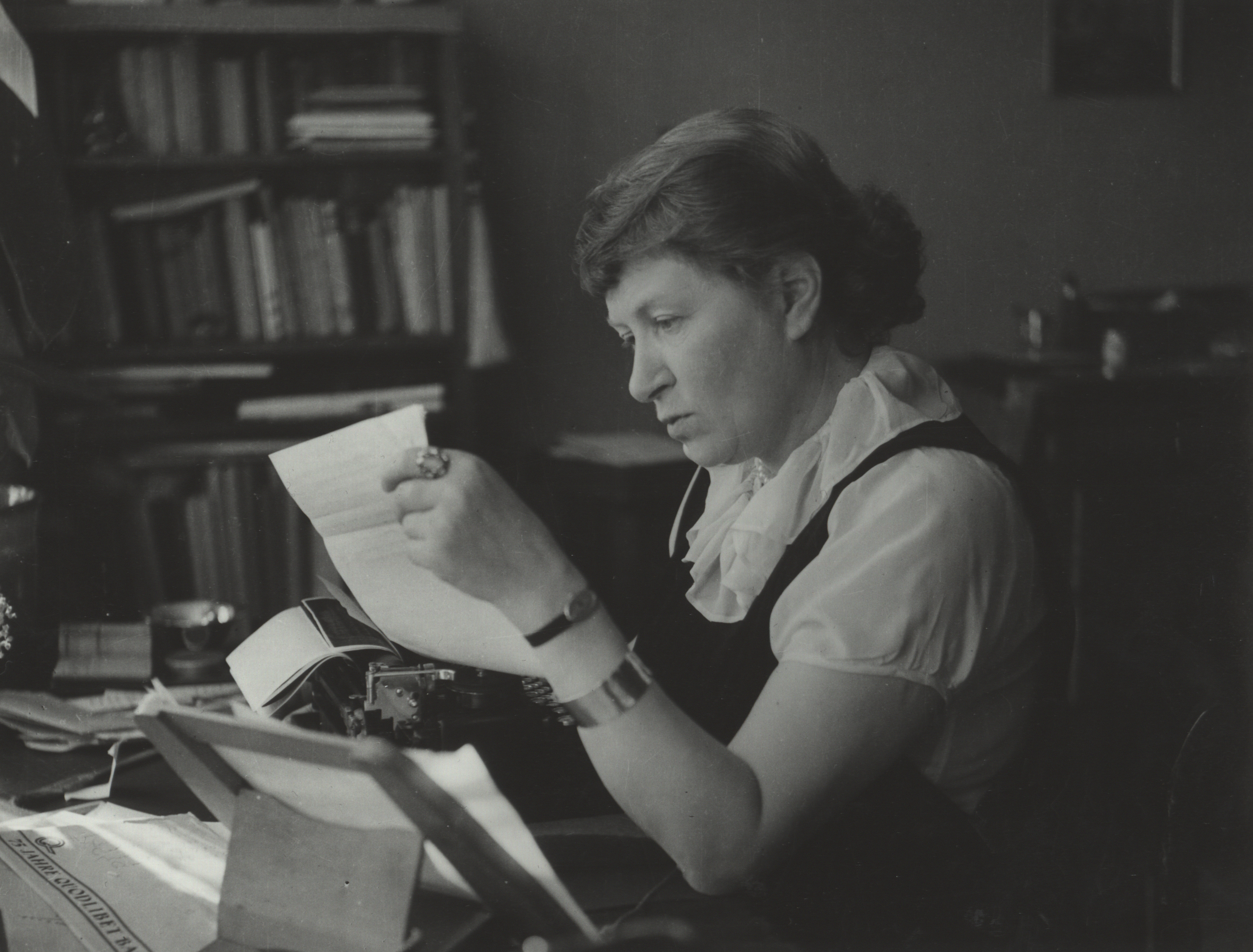 Portrait of Cécile Ines Loos (1883-1959), photo